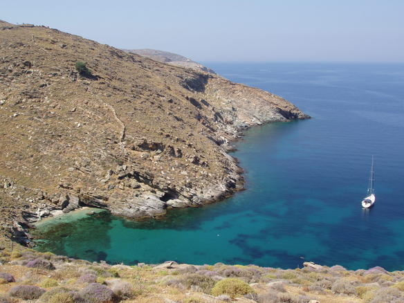 Kea. Sykamia beach, Kéa.